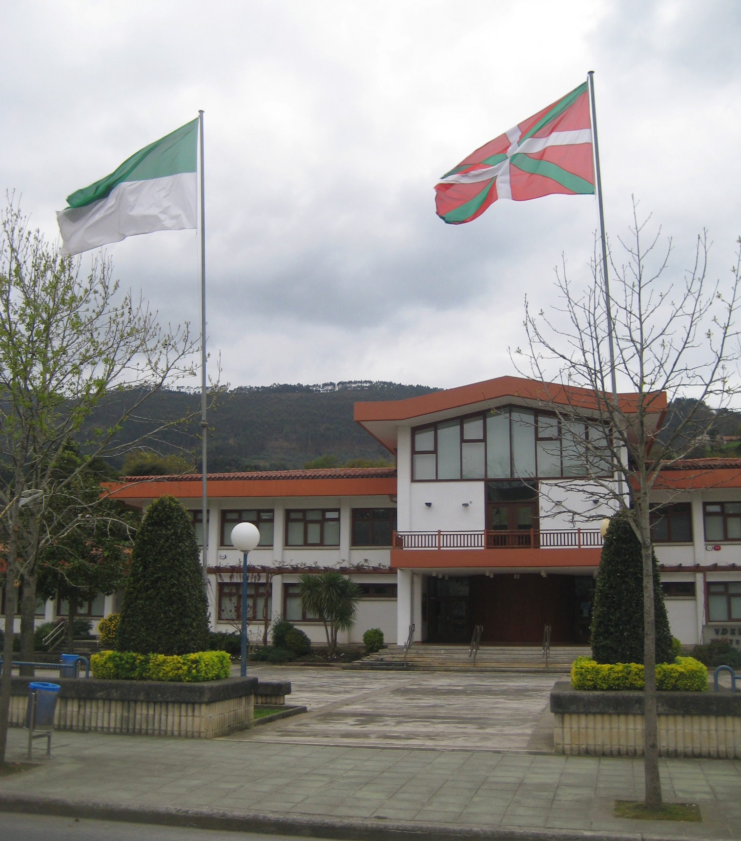 Bakio town hall